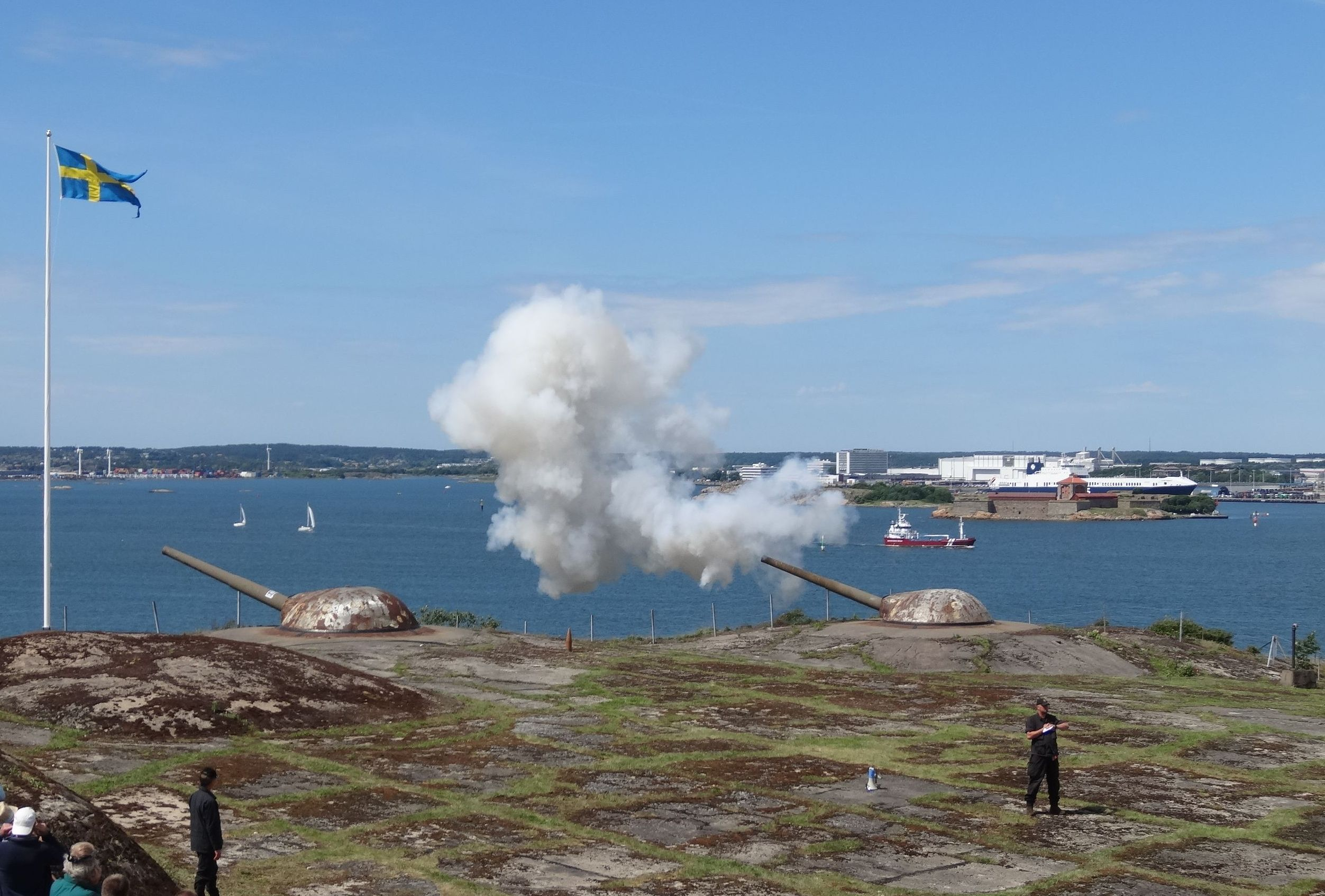 One of the 15,2 cm guns at the Fort of Oscar II in Gothenburg harbour, Sweden, fires a salute celebrating Swedens National Day, the 6 June. In the background is the 17th-century fortress Nya Älvsborg.